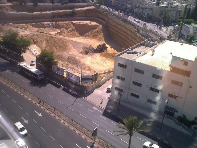 The foundations of Elite Tower in Ramat Gan, Israel